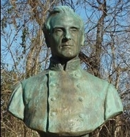 Bust of Brig. Gen. Winfield Scott Featherston by Edmond Thomas Quinn; Erected in April 1915 at Vicksburg National Military Park